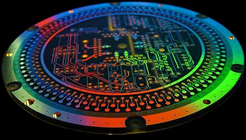 160 Pin Device Unter Test (DUT) Board